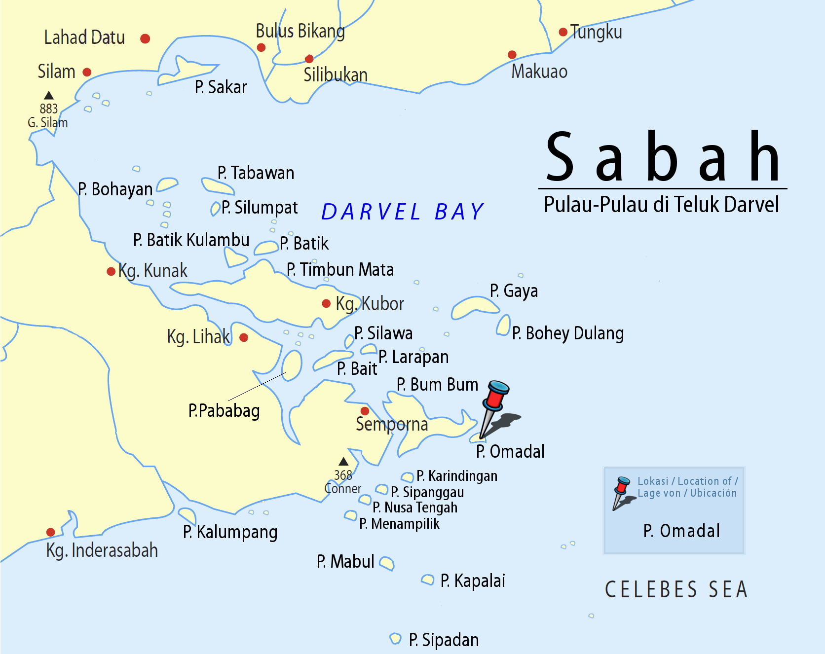 Sabah: Scheme of Islands in the Darvel Bay with Pushpin Marker for Pulau Omadal